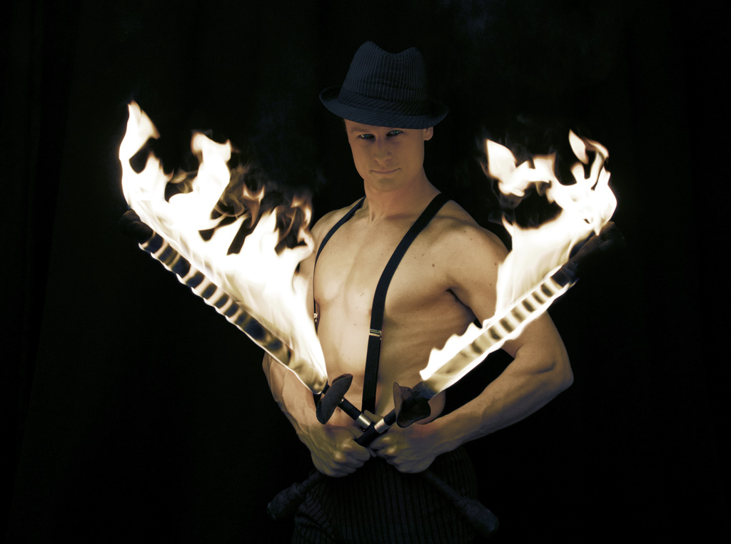 A Fire Performer with Flaming Swords - Dan Miethke Flaming sword